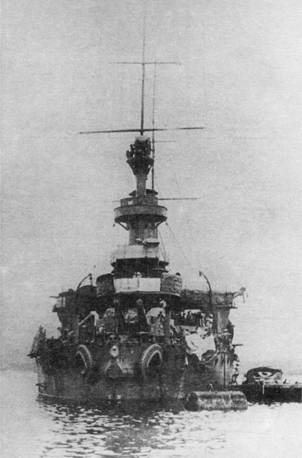 Japanese battleship IJN Mishima, 1907.